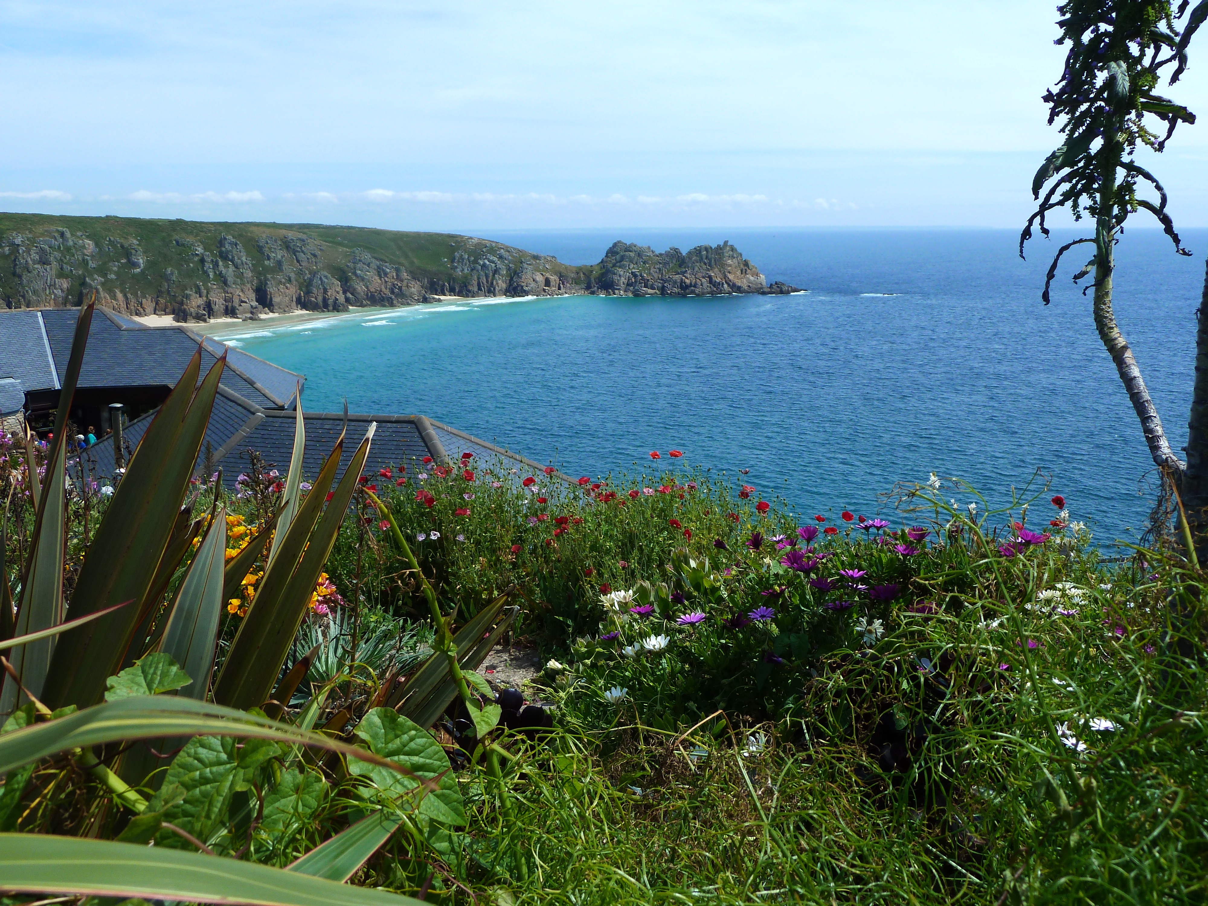 Looking over the top of the Minack Theatre, across at the gardens